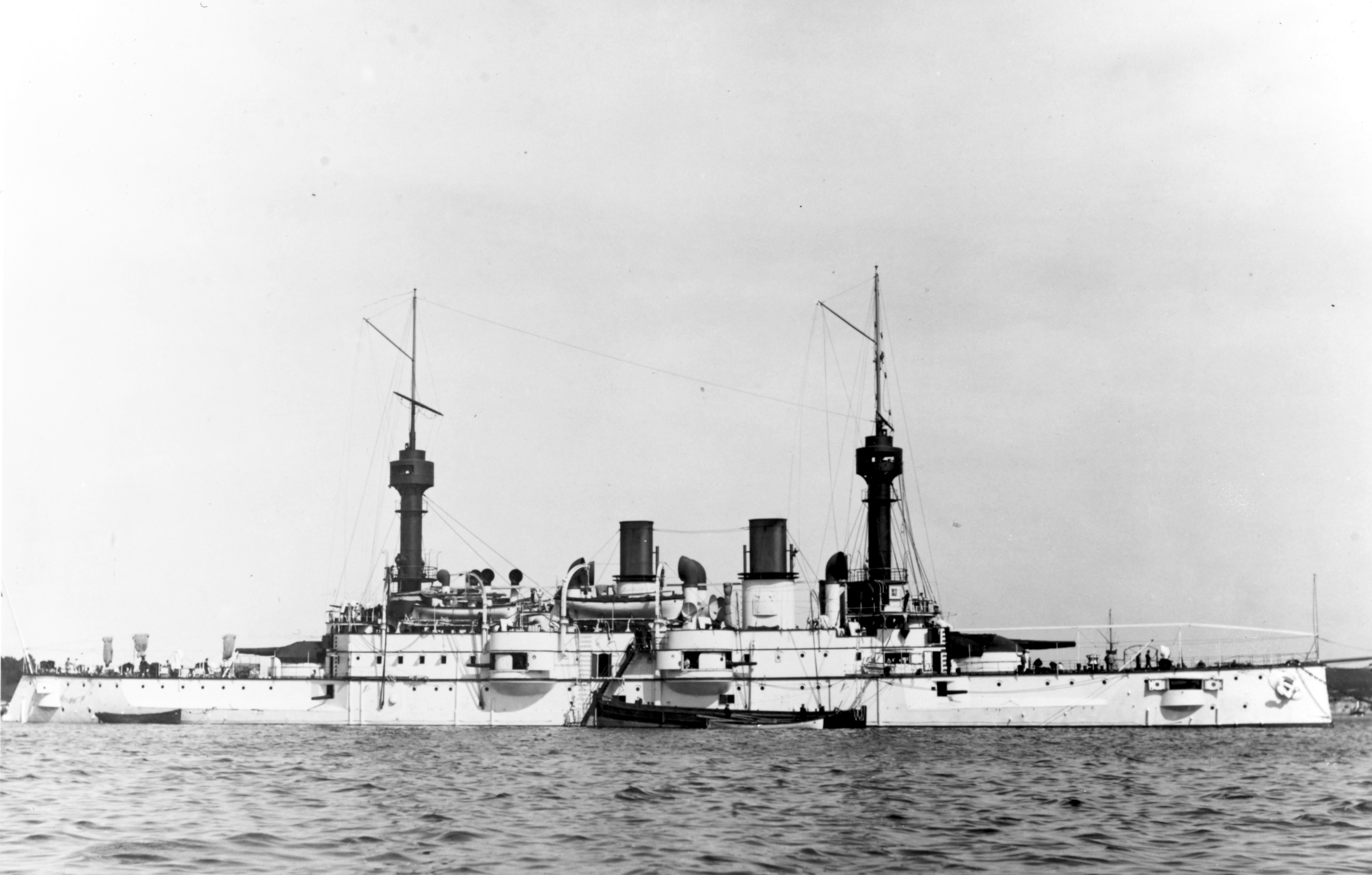 Title: KAISERIN UND KONIGIN MARIA THERESIA (Austrian armored cruiser, 1893-1920) Caption: Photographed by B. Circovich of Trieste, in a print obtained by the U.S. Navy's Office of Naval Intelligence in Washington, District of Columbia on 24 January 1899. The ship is seen here running trials with no armament on board. This photograph may have been taken soon before the ship's departing Pola on 9 May 1898 to protect Austrian interests in Cuban waters; she returned to Pola 13 December 1898.